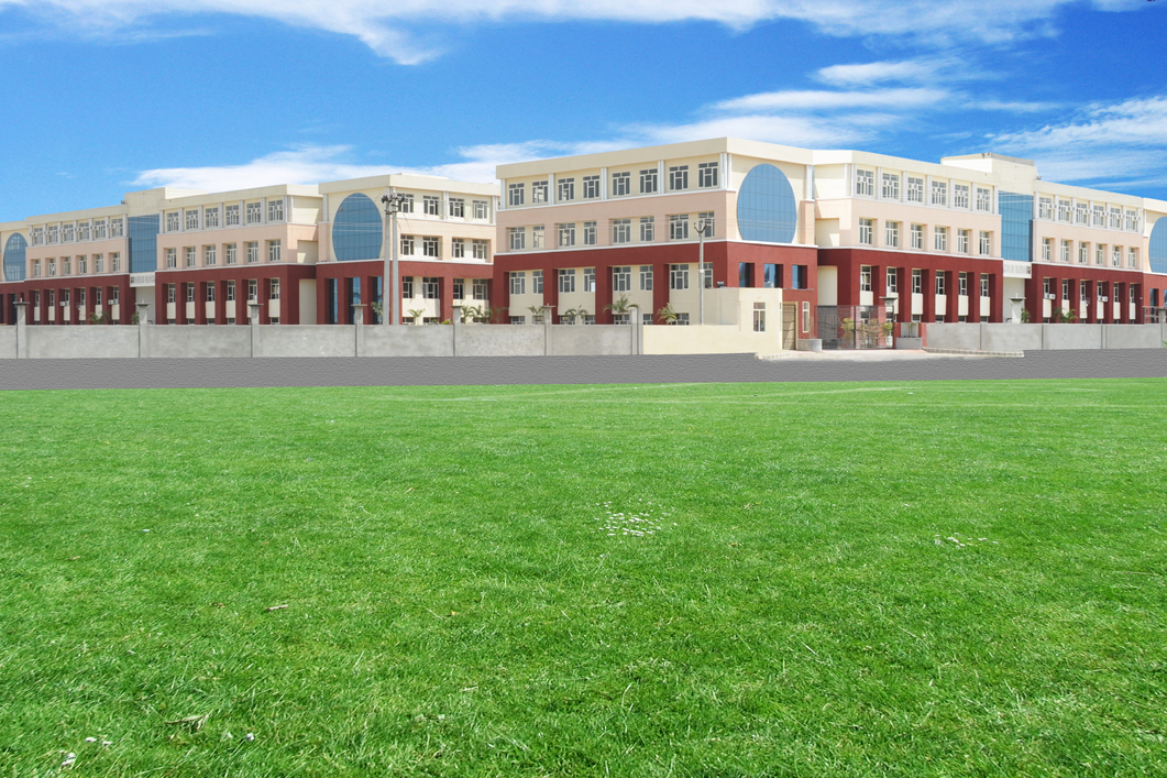 building photo